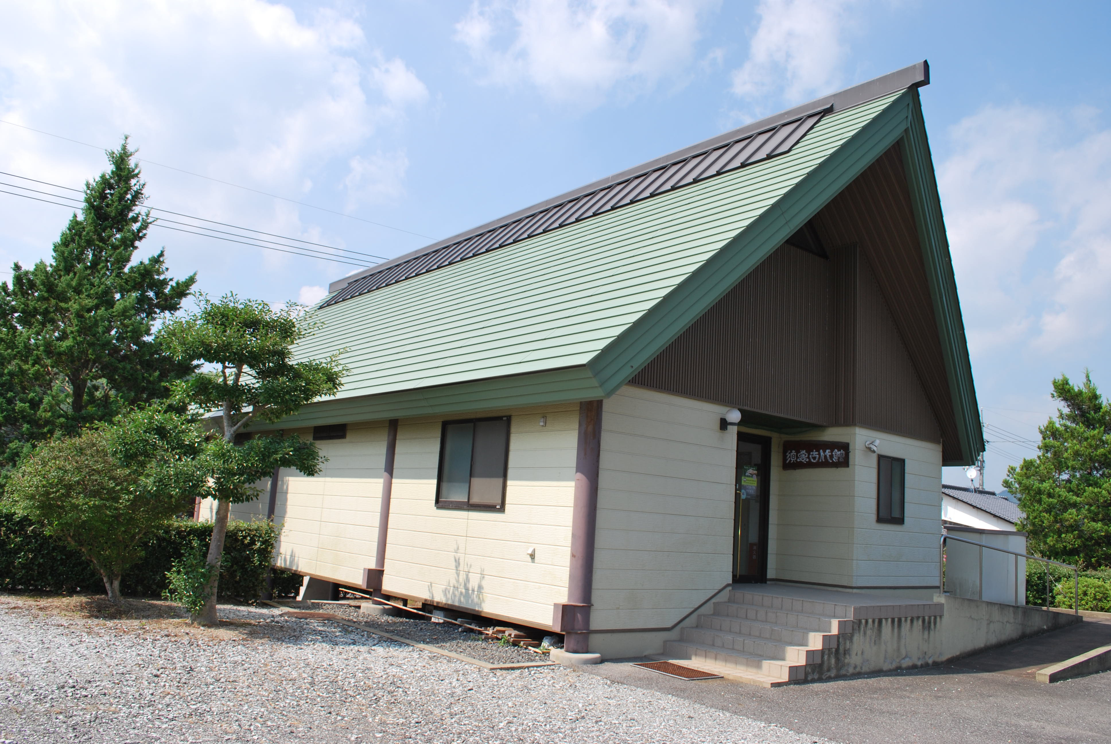 Sue Ancient Material Hall